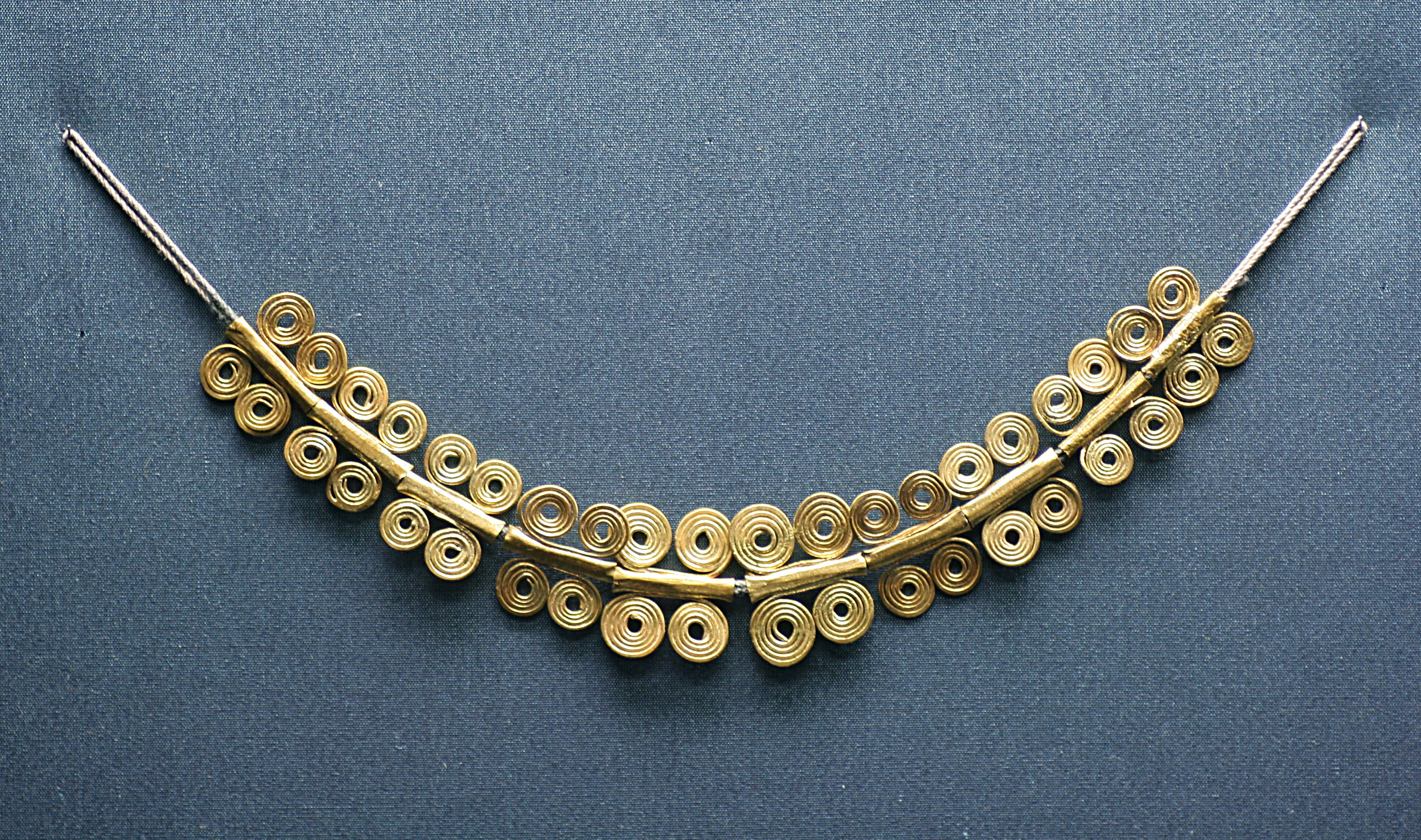 Photographed by myself